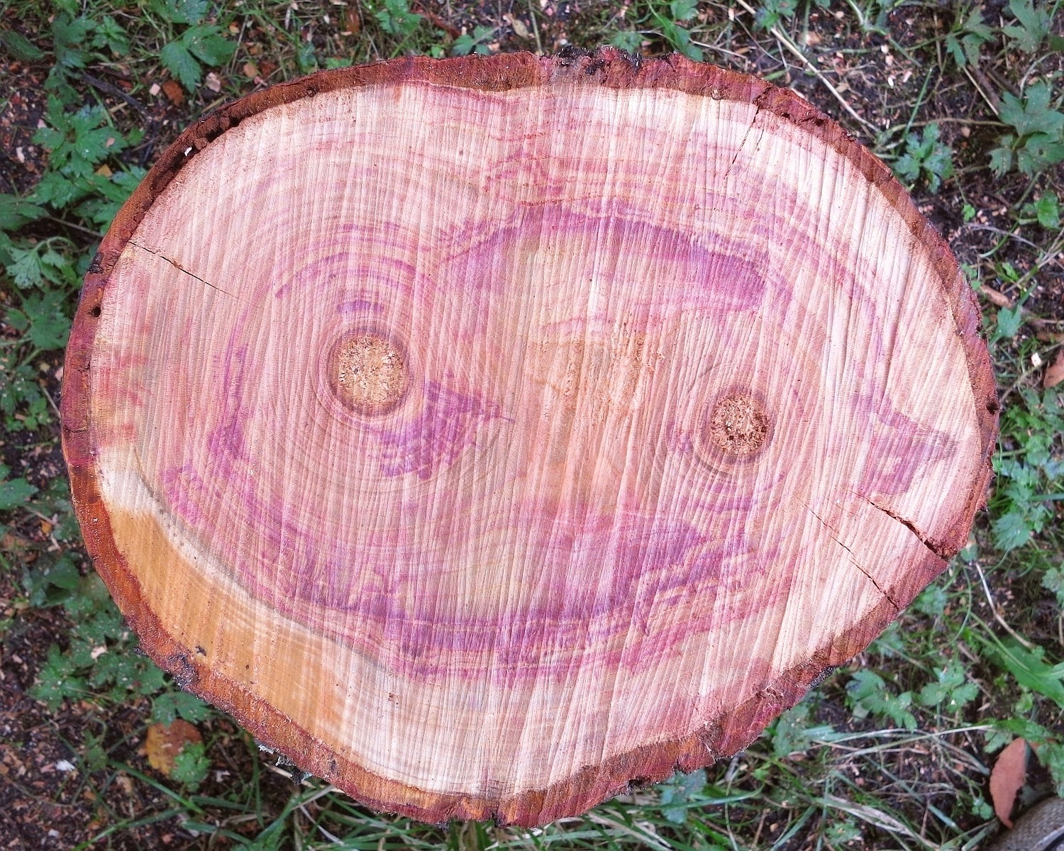 Cross section of Prunus cerasifera trunk in Estonia